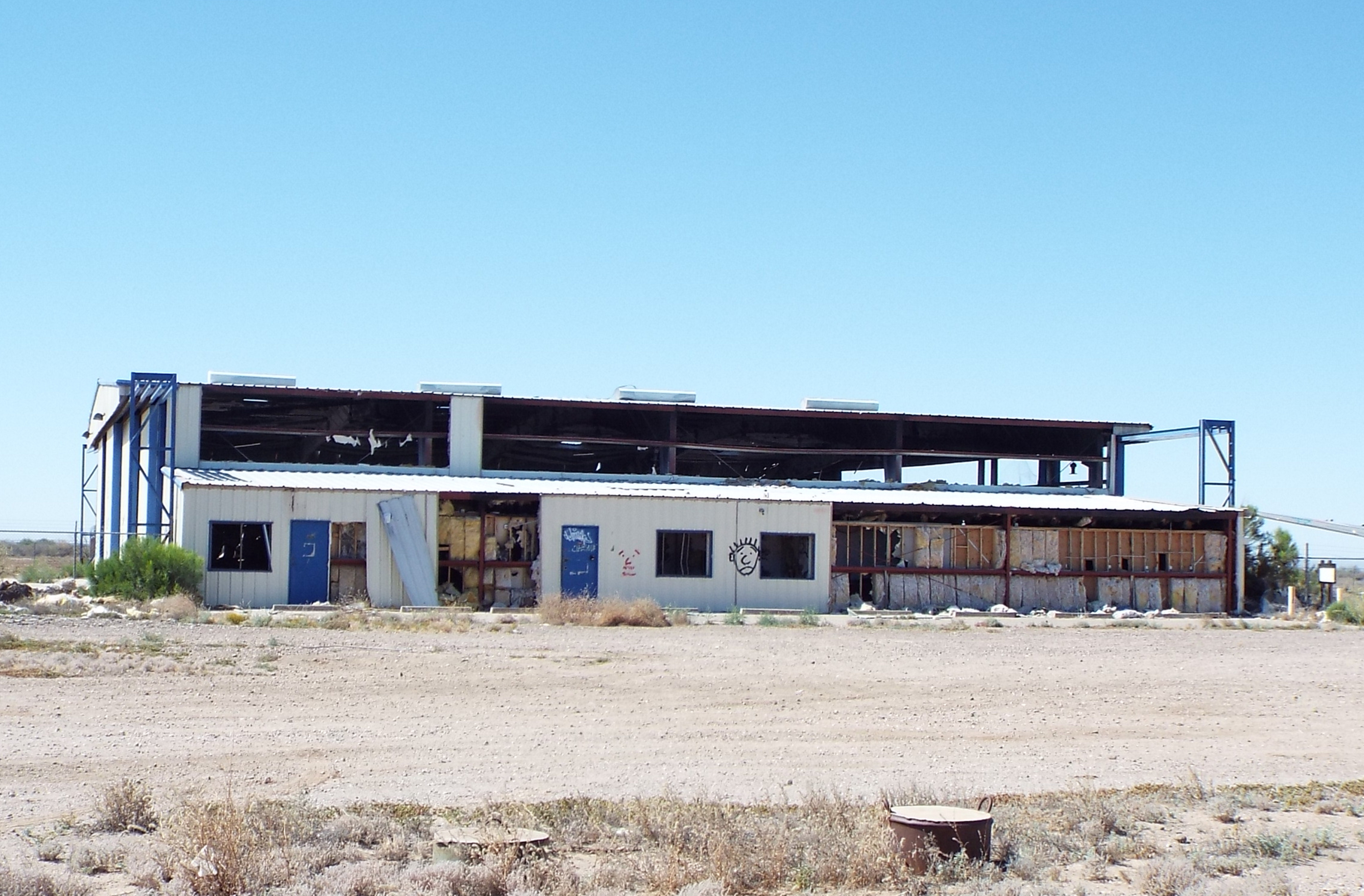 The man terminal of the Gila River Memorial Airport, an abandoned airport located in the Gila River Indian Reservation near the town of Chandler